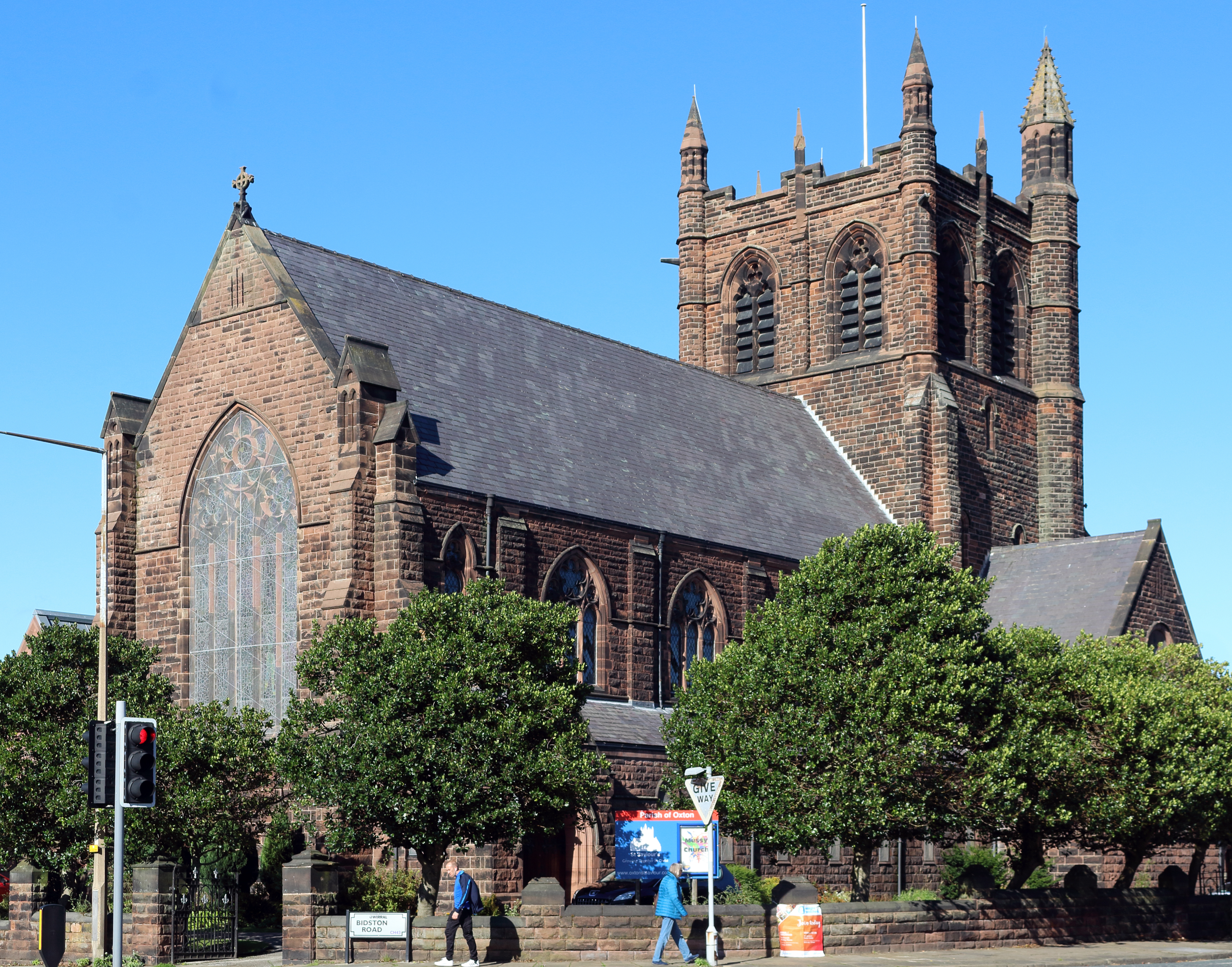 View from across the junction of Bidston Road and Gerald Road